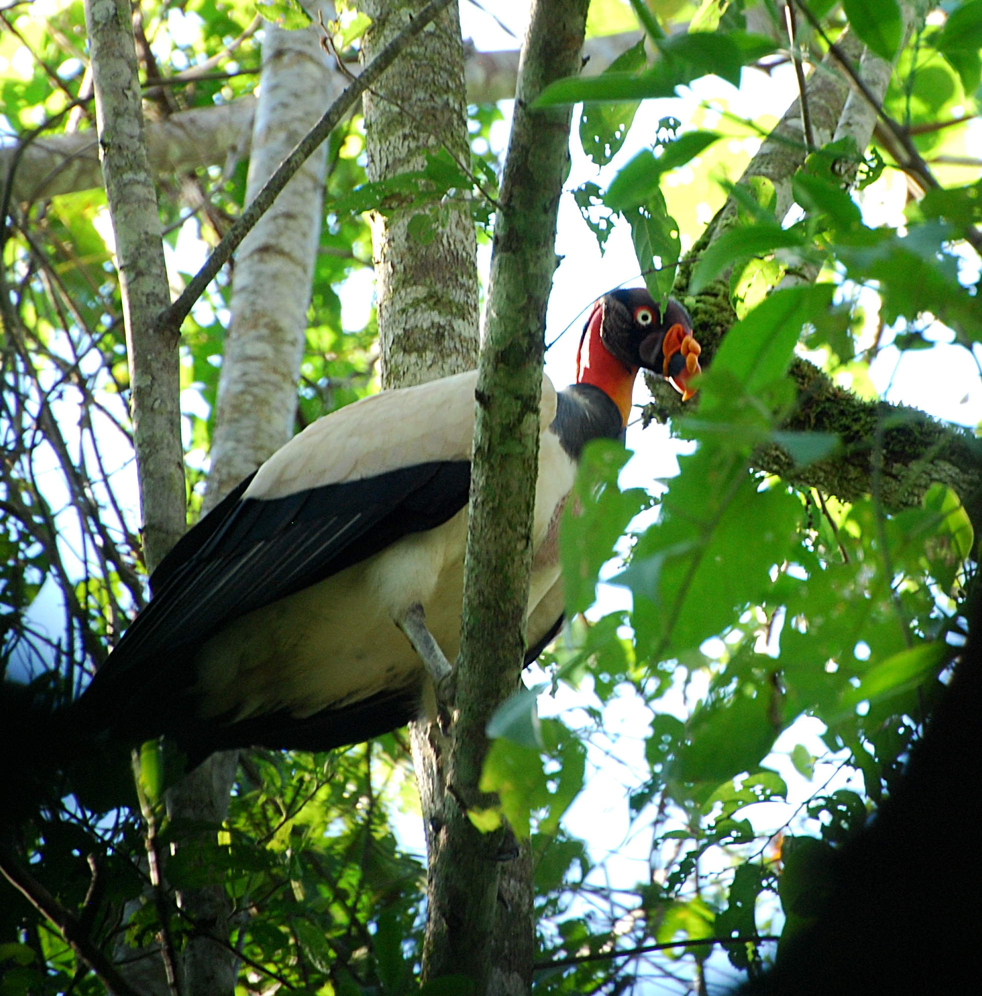 King Vulture (Sarcoramphus papa) seen at Sacha Lodge, in Ecuador.